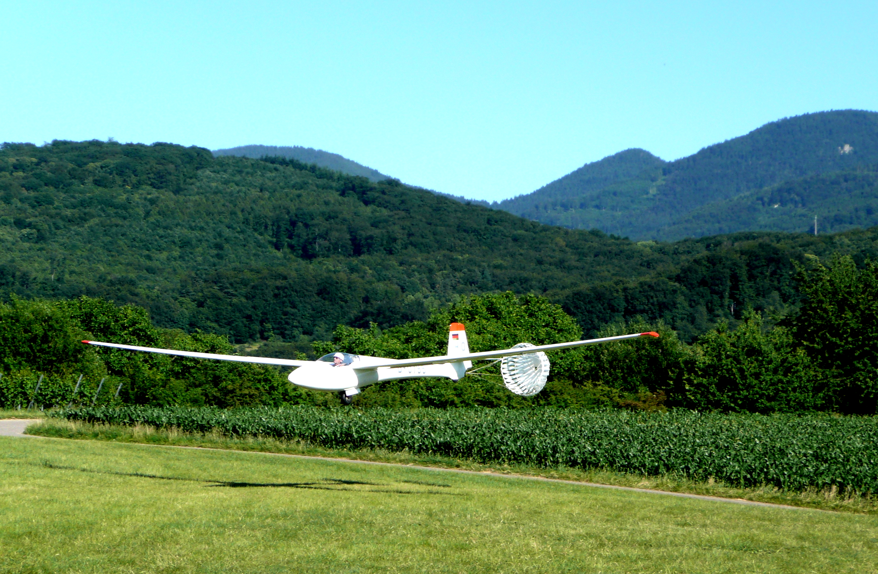 Glasflügel Libelle H301 with dragshute